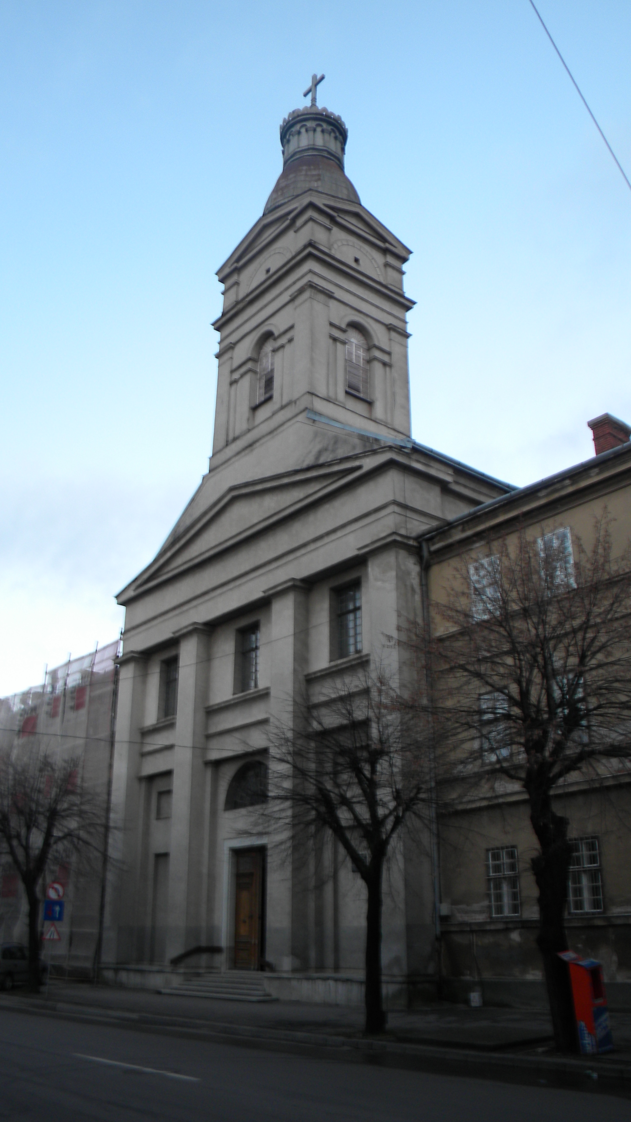 Monastery, Satu Mare/Szatmárnémeti/Sathmar (Congregatio Surorum Caritas de Szatmár)